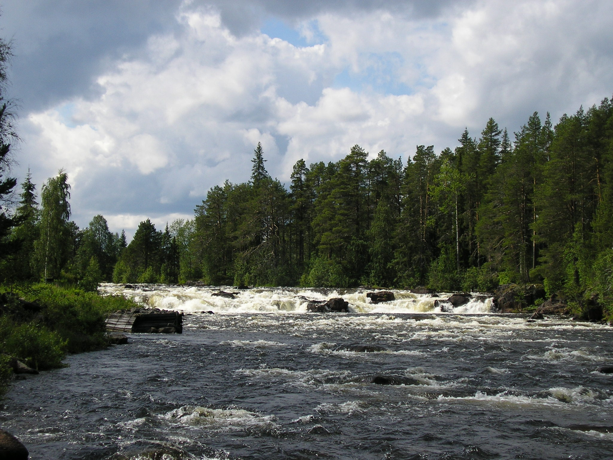 Tornevalley